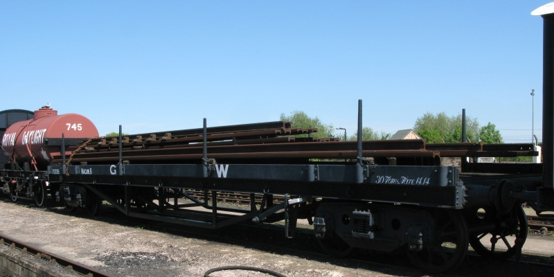 Great Western Railway diagram J28 'Macaw' bogie bolster wagon 70335 at Didcot Railway Centre, England.